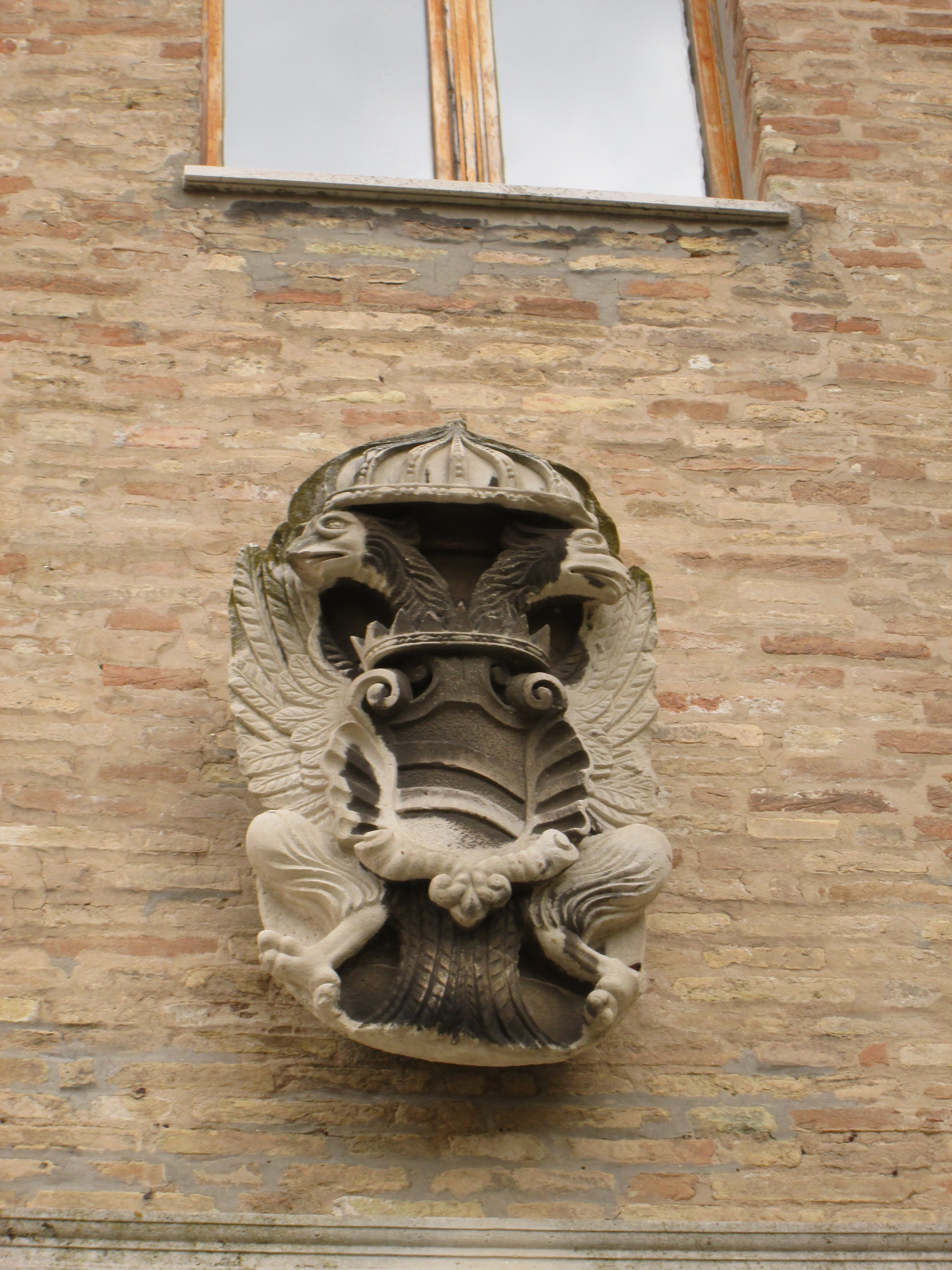 Sculpture of a crowned double-headed eagle, once displayed the Greek church of Sant'Anna (Ancona). The coat of arms in the eagle's chest my belong to the church's catholic protector, possibly a bishop or a cardinal.